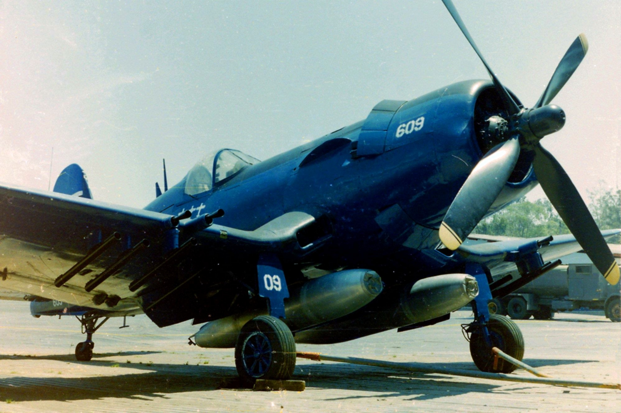 A Vought F4U-5NL Corsair (U.S. Navy BuNo 124715) on display at the Museo del Aire, Tegucigalpa (Honduras). This aircraft was sold to Honduras (s/n FAH-609) in 1956. In the so-called "Football War", Cap. Fernando Soto in FAH-609 shot down a Salvadoran air force Cavalier F-51D Mustang and two Goodyear FG-1D Corsairs on 17 July 1969 during the last known air combat between piston-engined aircraft. FAH-609 was finally retired in 1981.